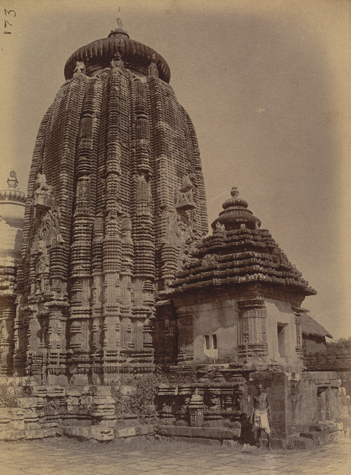 Shrine and eastern side of the Anantha Vasudeva temple in Bhubaneshwar